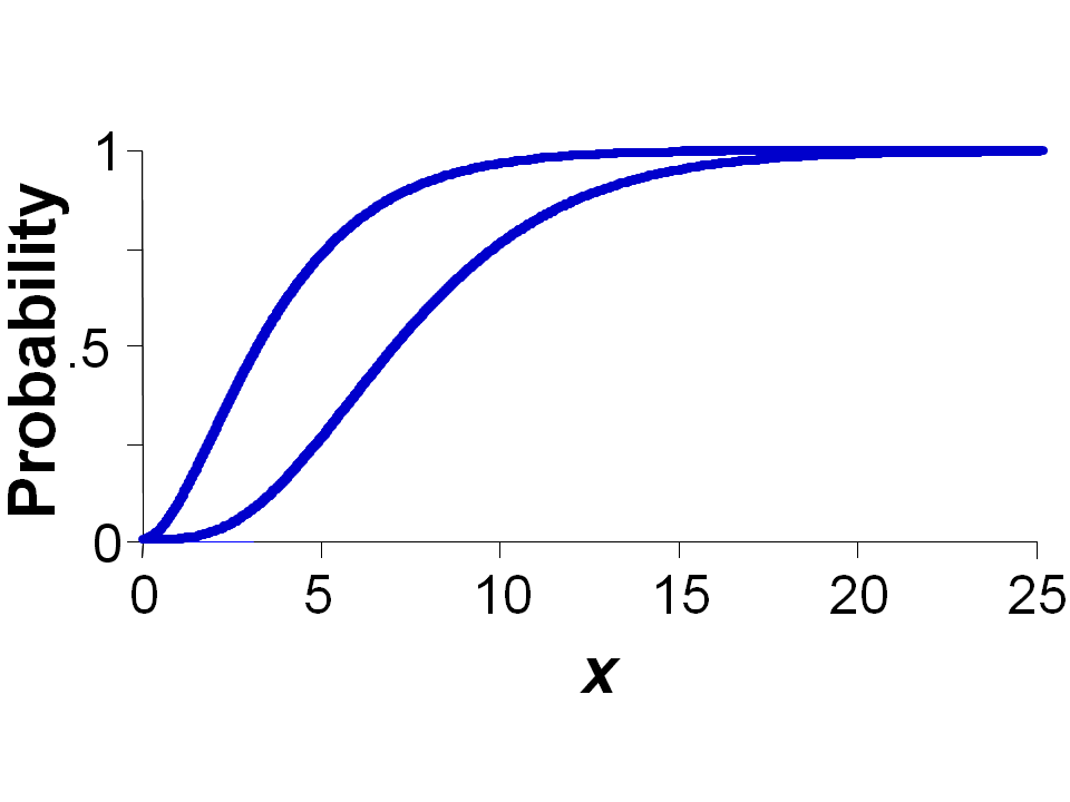 Continuous distributional p-box gamma(2,[2,4]) created in PowerPoint from a computation by the pbox.r library for R using the following commands: pbox.steps = 500 a = gamma(2,interval(2,4)) P-box: ~ gamma( range=[0.09080404,26.12448], mean=[4,8], var=[8,16]) cut(a, 0.95) Interval: [9.392669, 15.62955] alpha(a,10) Interval: [0.734, 0.96] lines(a,col='blue',lwd=3) lines(c(0,-2),c(0,0),lwd=3,col='blue') lines(c(25,30),c(1,1),lwd=3,col='blue')